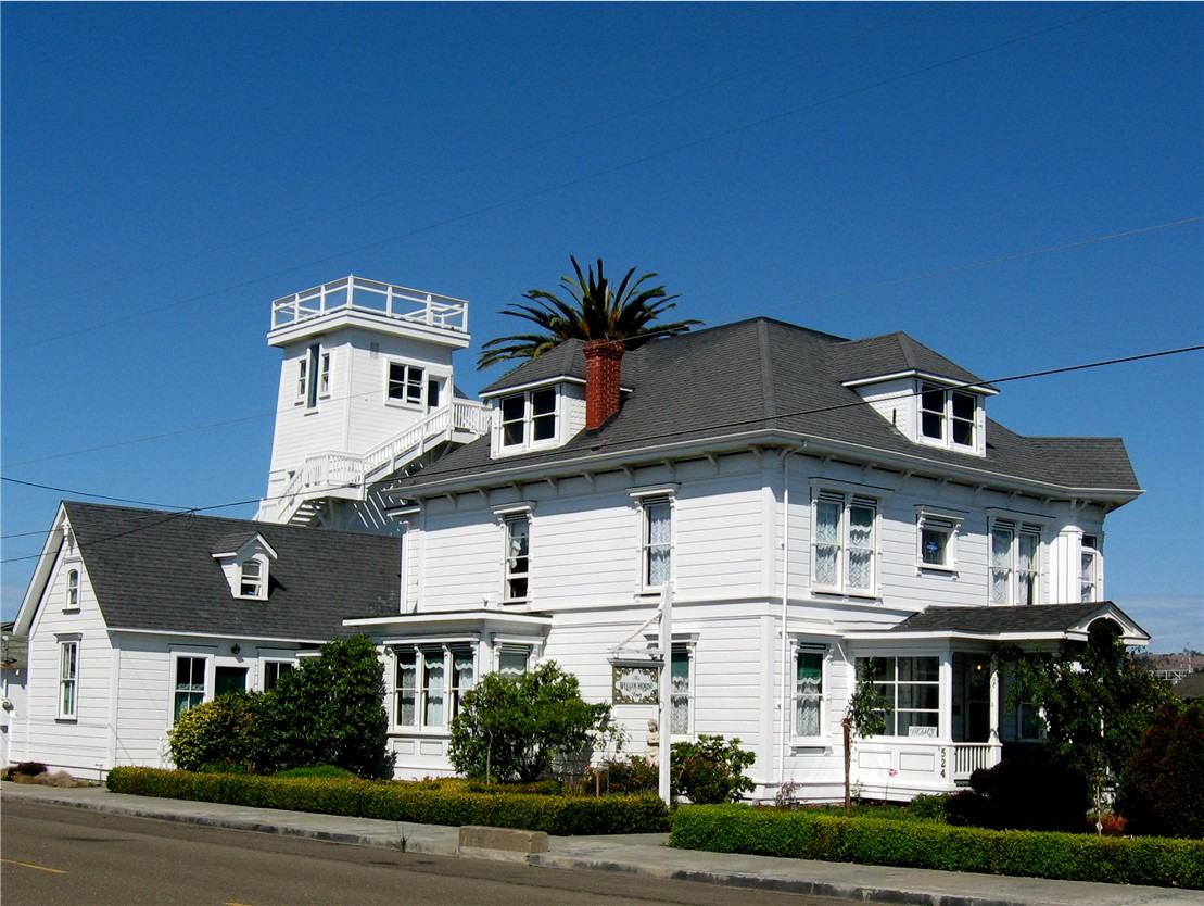 Built in of Fort Bragg, California for Horace Weller in 1886, the Weller House is the oldest existing house in the city. Now a Bed and Breakfast Hotel, on the National Register of Historic Places in Mendocino County.